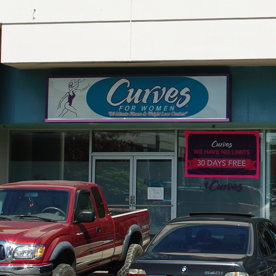 Curves in Hillsboro, Oregon.